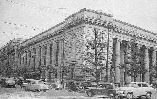 Mitsubishi Bank Head Office in 1950s